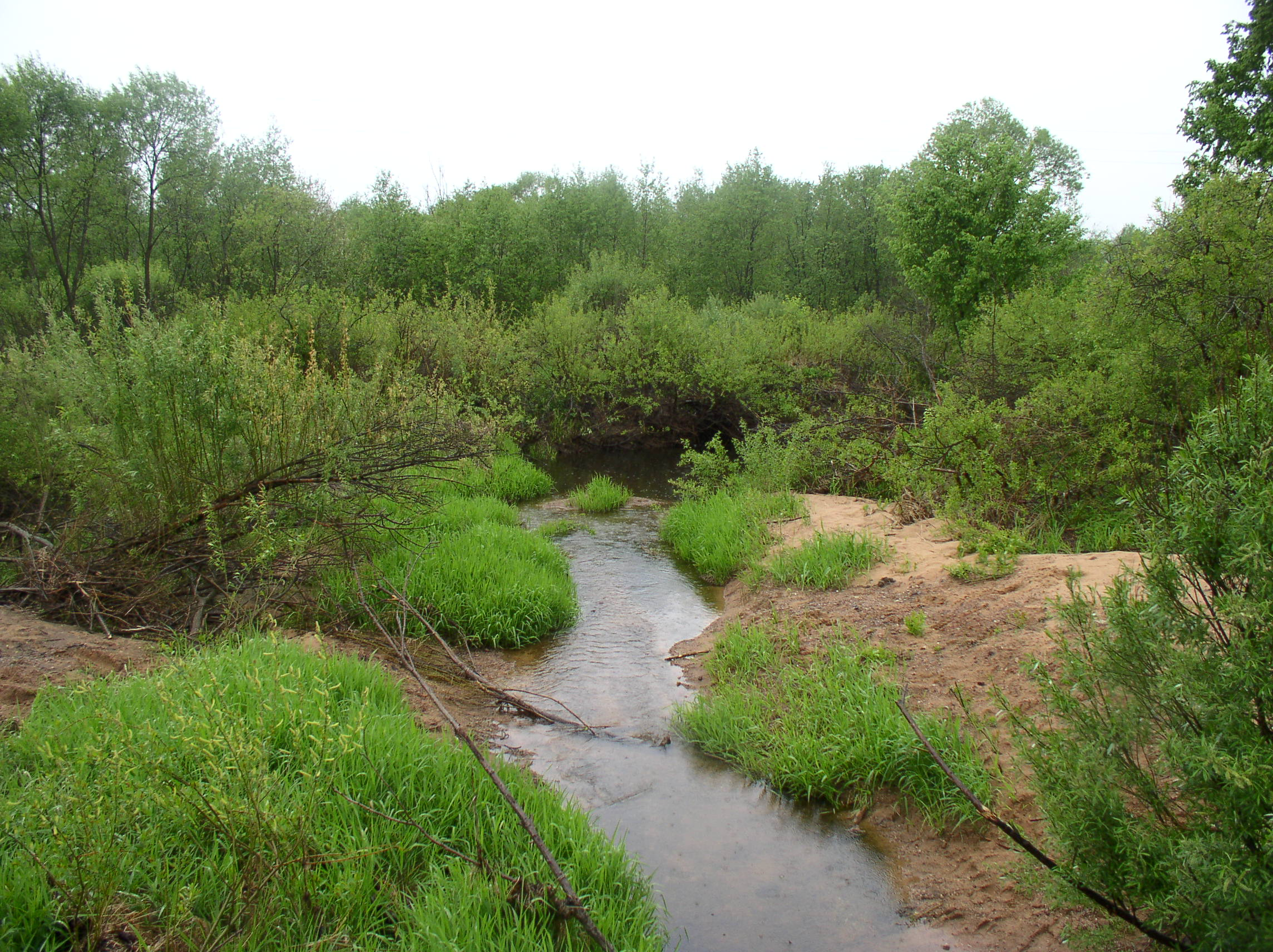 Vitsba river. Belarus.